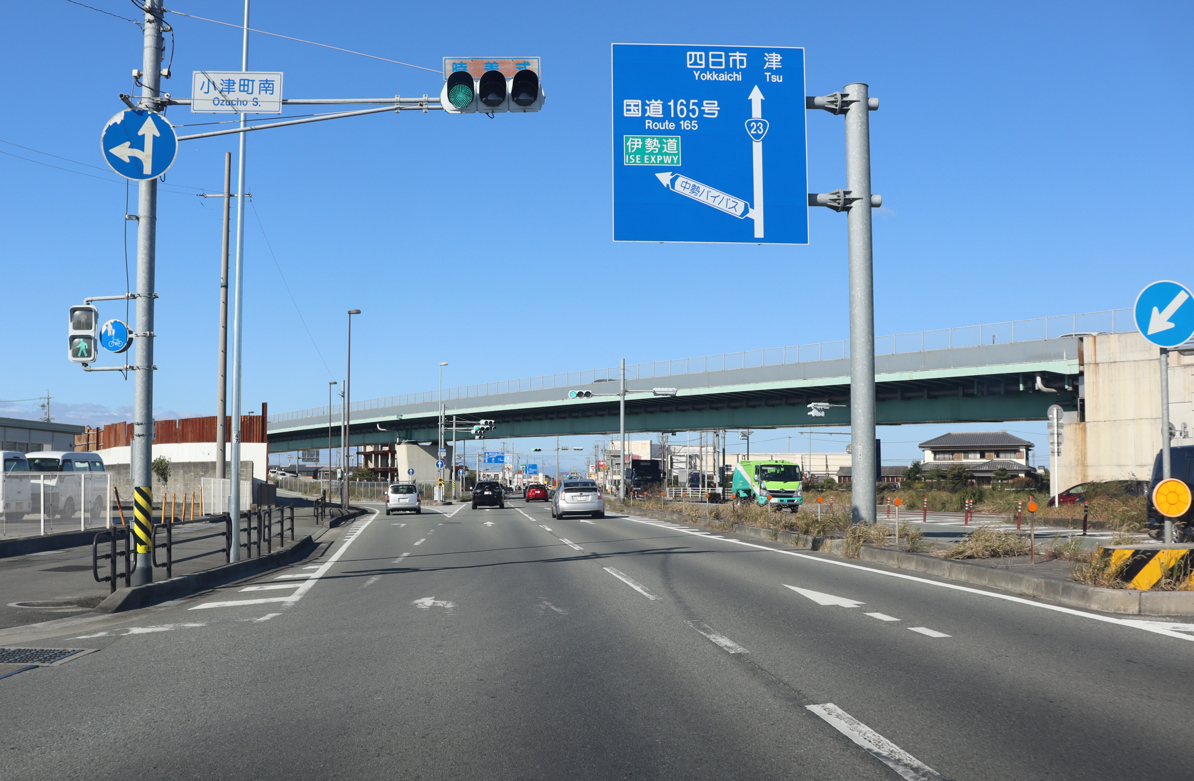 Route 23 and Route 166 in Ozucho, Matsusaka, Mie Prefecture, Japan.